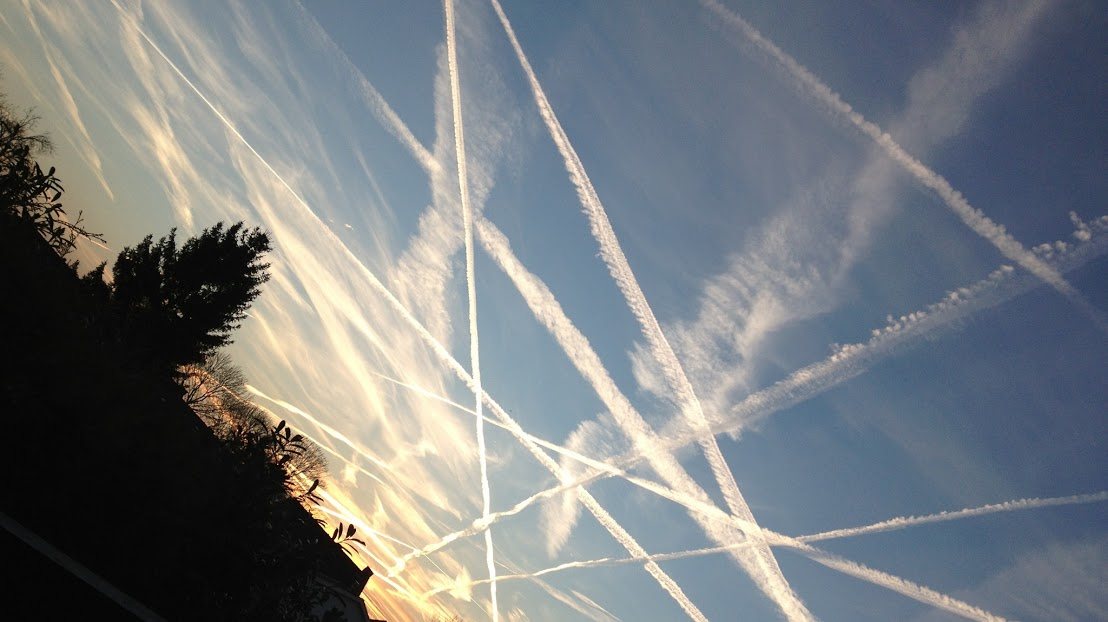 for some its chemicals to influences the weather, foods, water, sunblock.. to me its just a combination of a particular wind, or better yet no wind, and visibility, which makes these exhaust gases spread